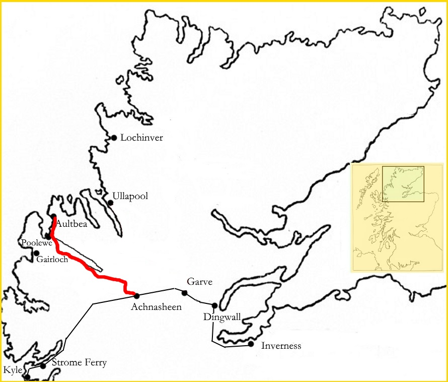 Shows the proposed route of Loch Maree and Aultbea Railway; and existing route of Dingwall to Kyle of Lochalsh railway